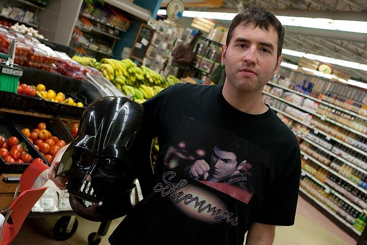 Adam Koralik on the set of Chad Vader.